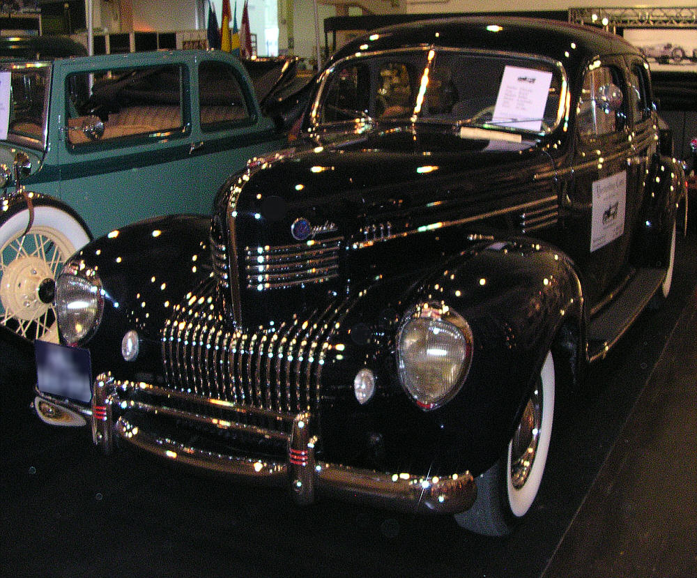 Techno-Classica Essen 2007, Chrysler Royal Sedan